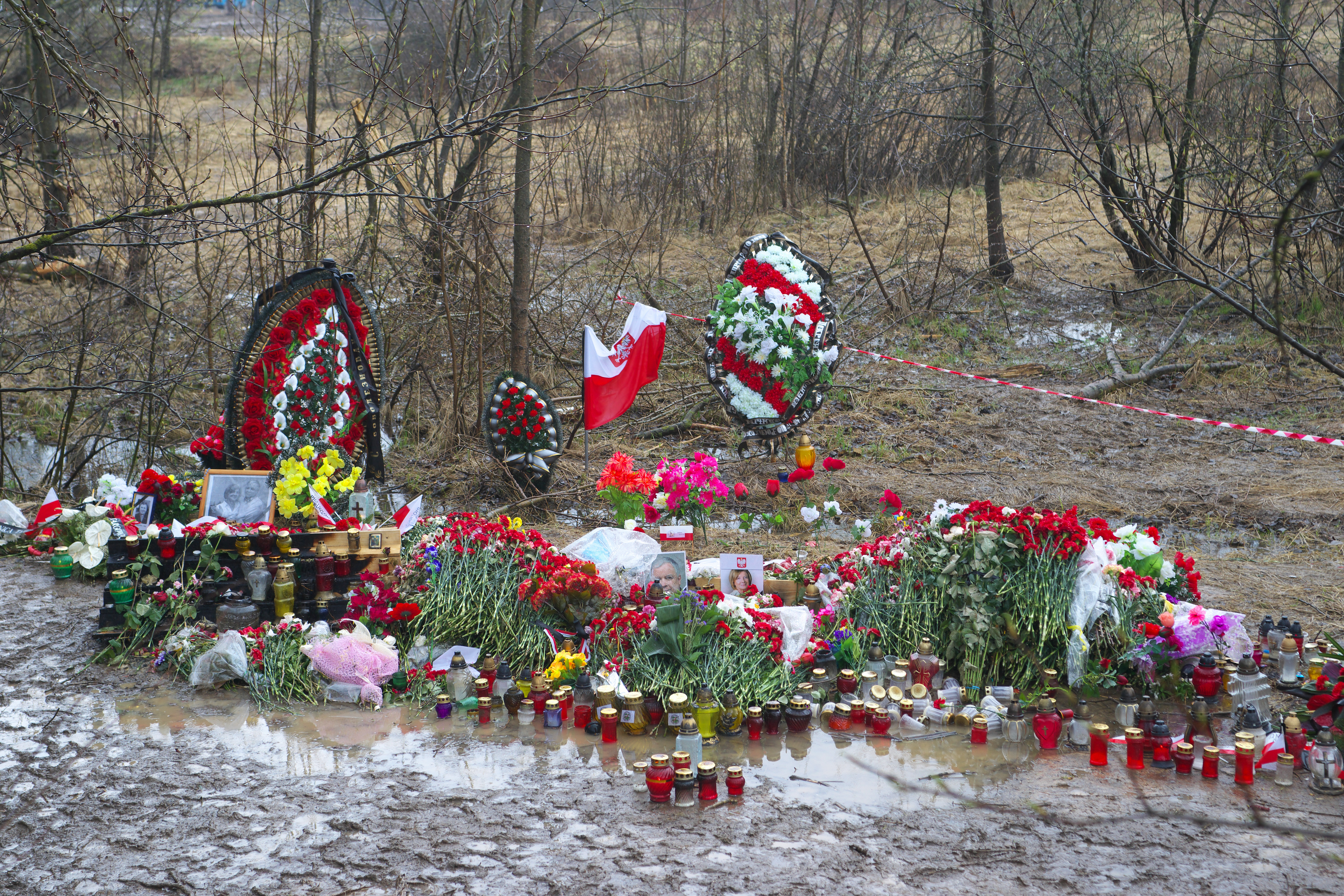 Improvised memorial near the site of the crash of the Polish President Kaczynski